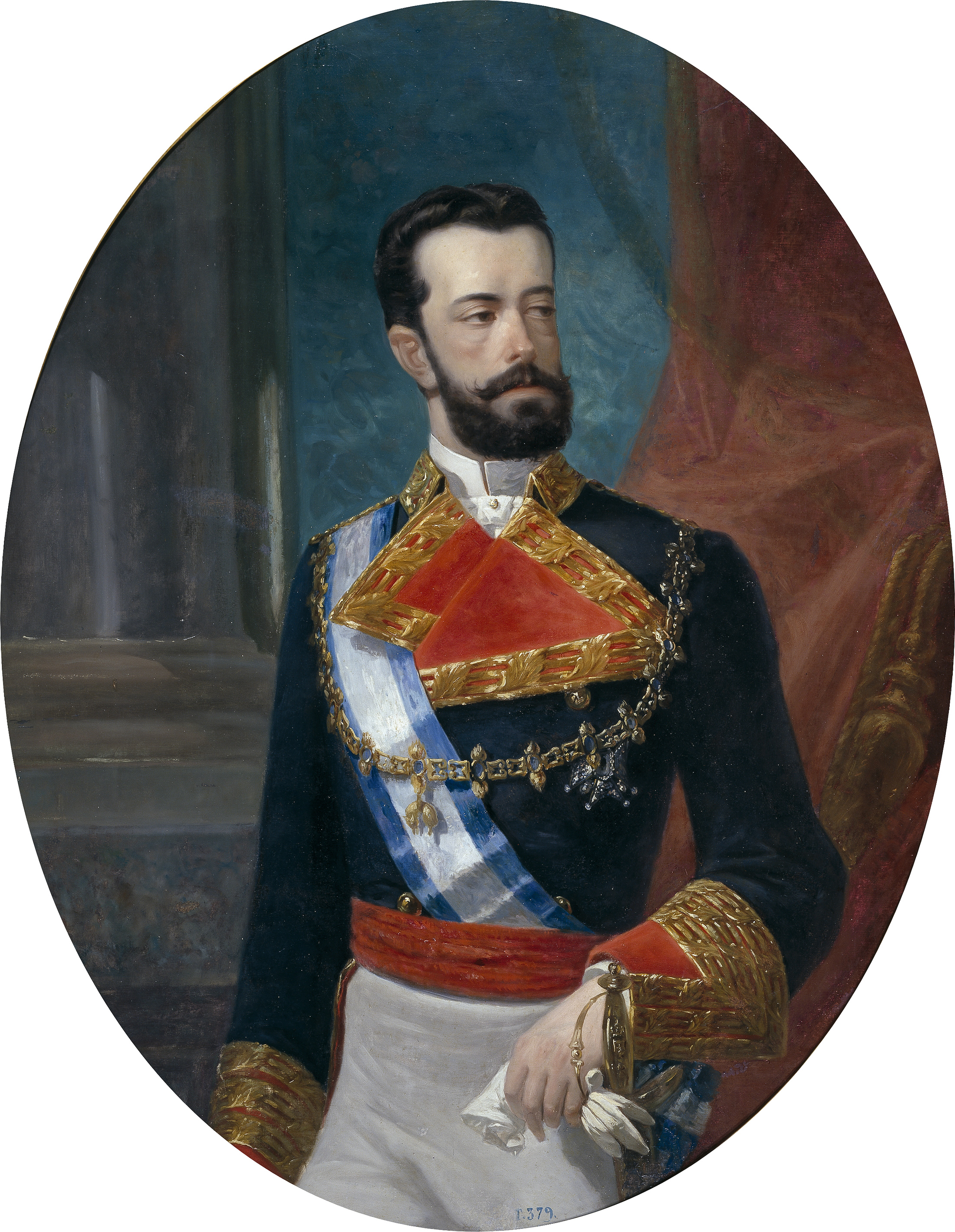 Amadeo (Italian Amedeo, sometimes anglicized as Amadeus) ( 30 May 1845 – 18 January 1890) was the only King of Spain from the House of Savoy. He was the second son of King Victor Emmanuel II of Italy and was known for most of his life as Duke of Aosta, but served briefly as King of Spain from 1870 to 1873. Granted the hereditary title Duke of Aosta in the year